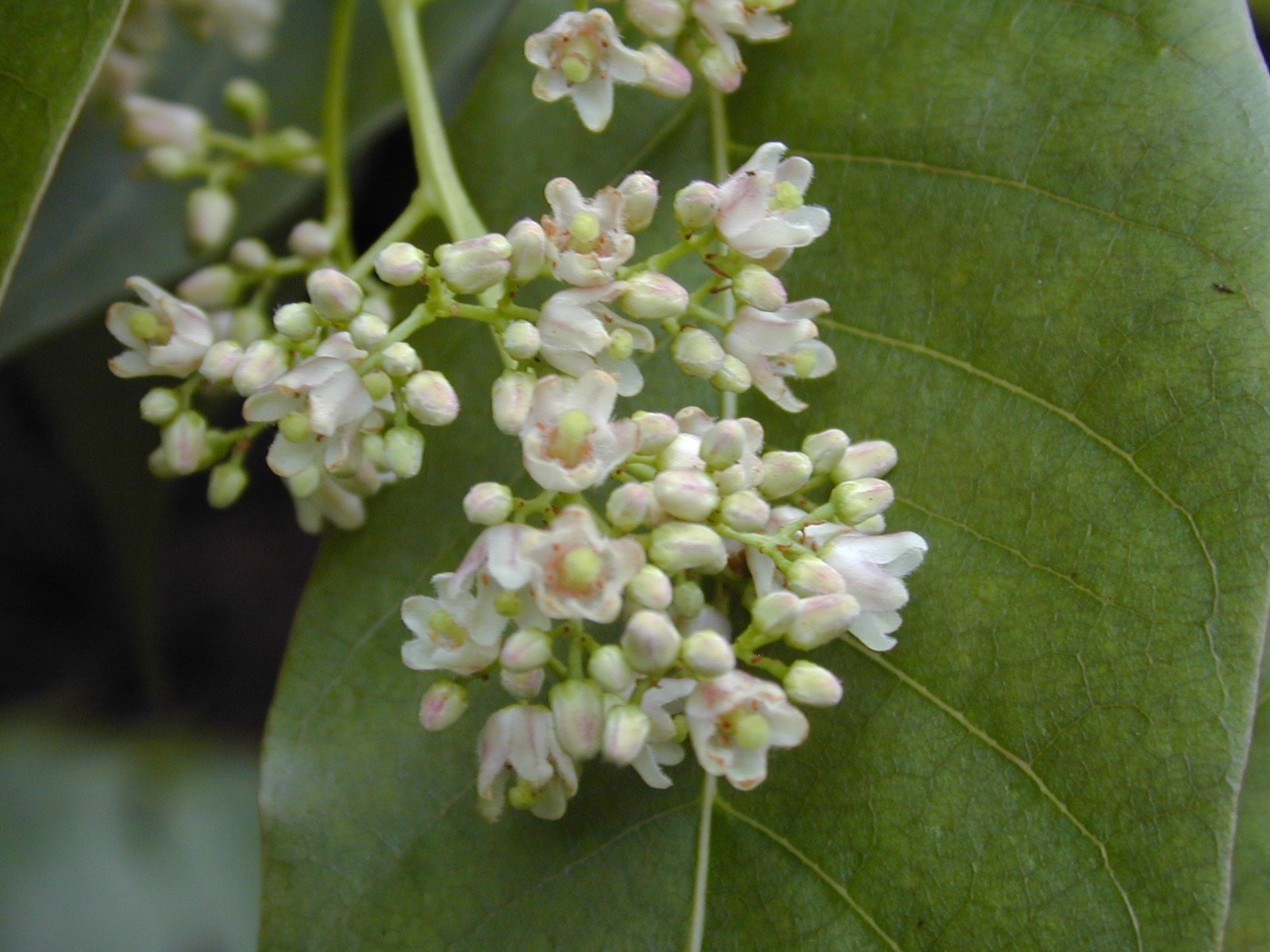 Toona ciliata (flowers). Location: Maui, Makawao Forest Reserve